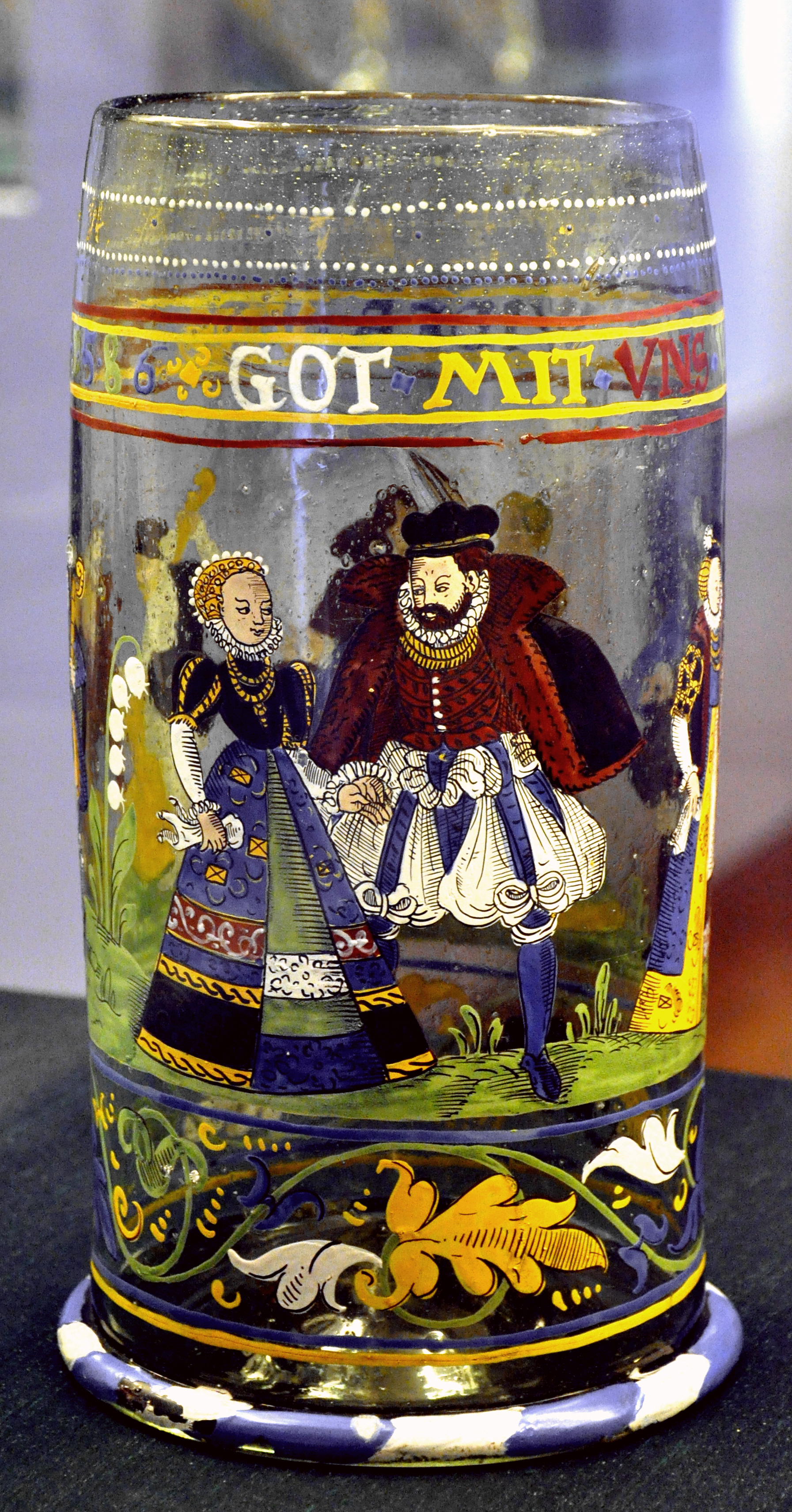 Beaker, Bohemia, 1586, after Jost Amman, Museum für Angewandte Kunst, Frankfurt; Inv. Nr. 3631